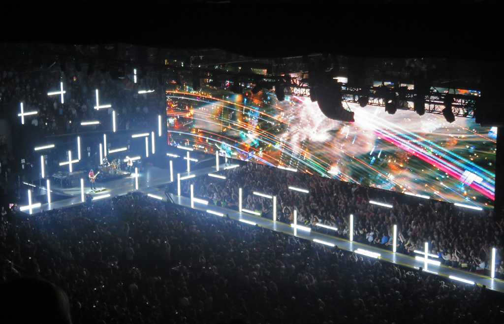 The "light tube" fixtures on the set of U2's Innocence + Experience Tour during a show at The Forum in Inglewood, CA on May 27, 2015